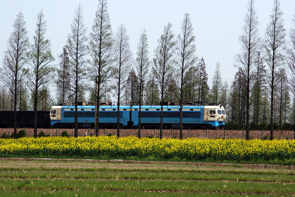 FakeTrain Buffing假的火车热情症（笑） Canon EOS20D + Tamron AF18-200mm f/3.5-6.3 DiⅡ(A14) Blog 路地裡俱乐部(Alleyway Club-路地裏倶楽部）in Flickr China Railways SS4G